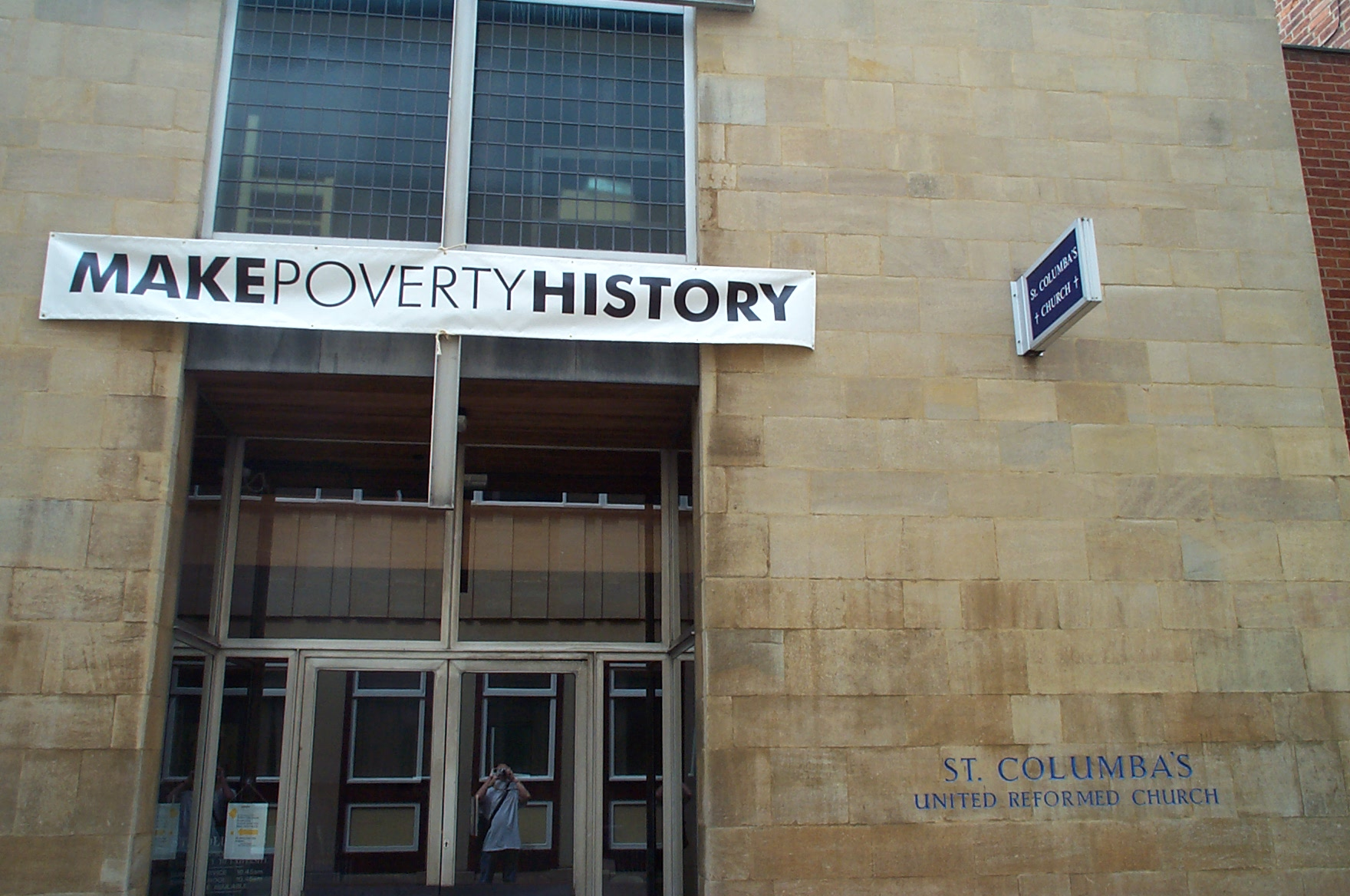 Make Poverty History banner in front of St Columba's United Reformed Church, Oxford, 2005-07-03. Copyright © Kaihsu Tai.